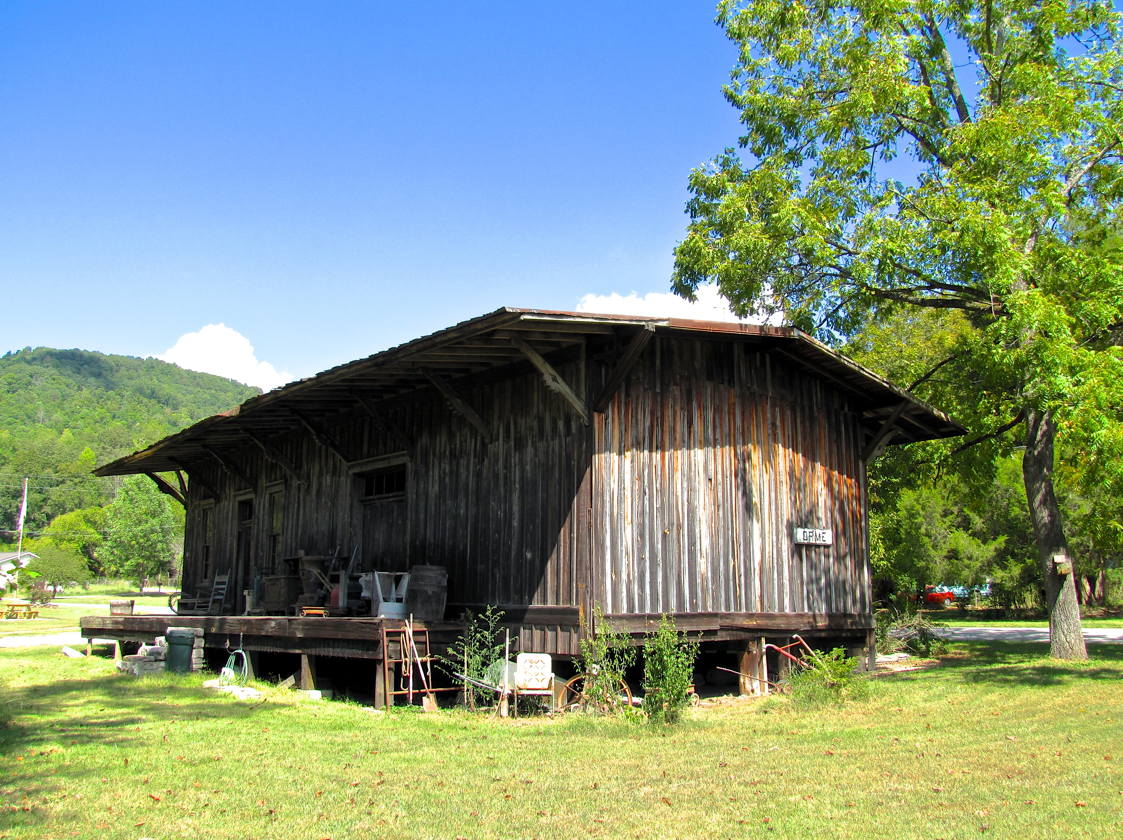 The Orme Depot in Orme, Tennessee, United States, viewed from the southwest.